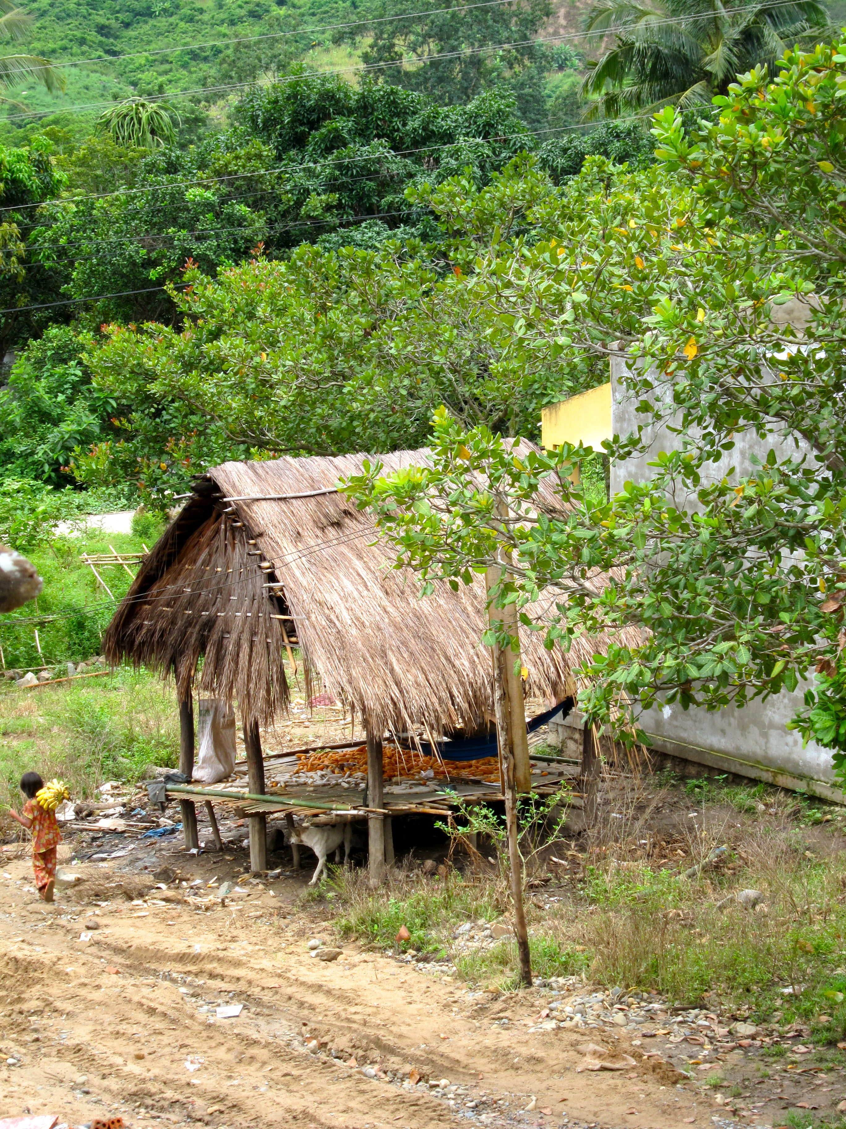 Raglay collecting bananas in Phuoc Binh National Park, Ninh Thuan Province, Vietnam